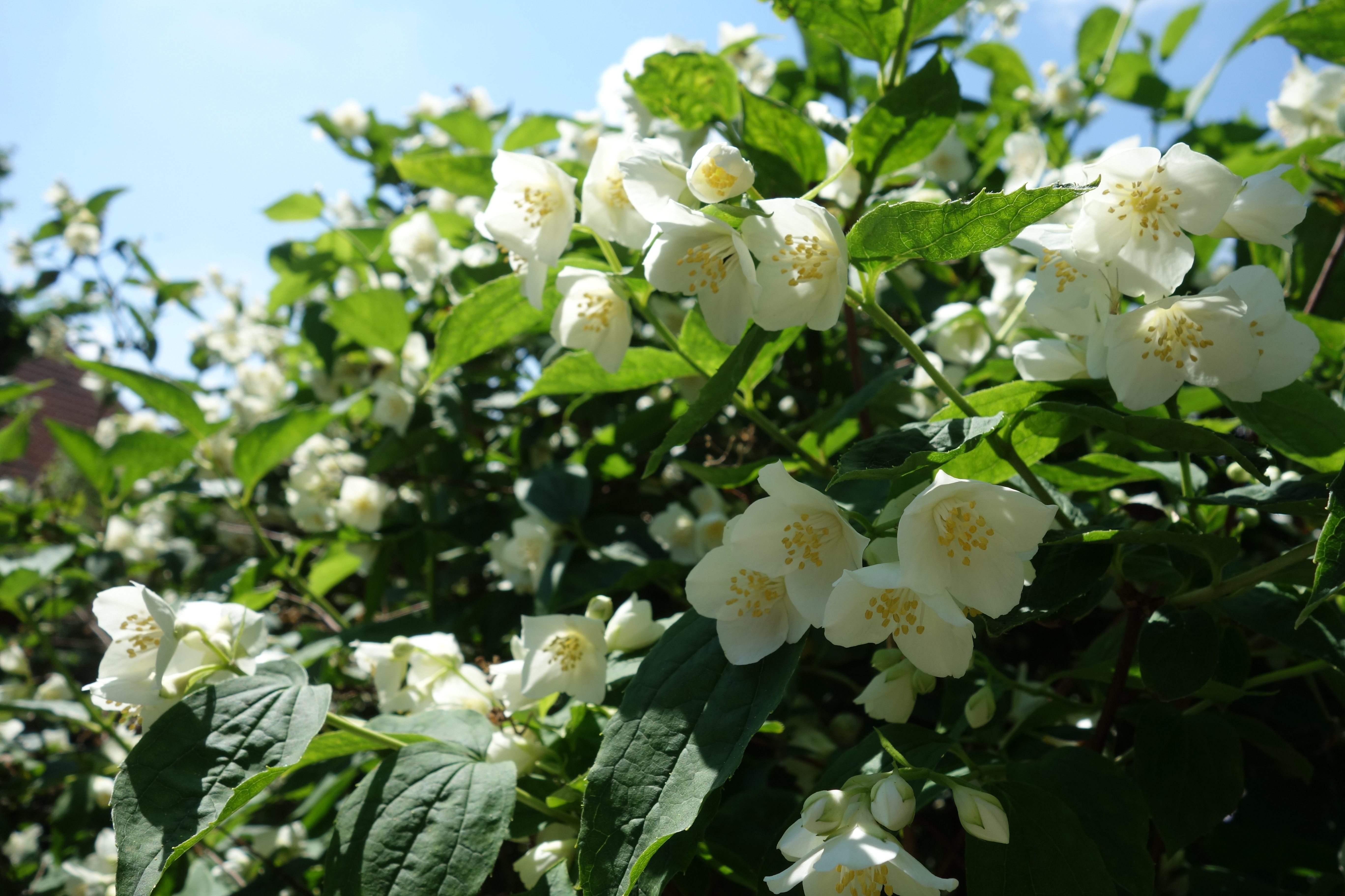 Jasminum